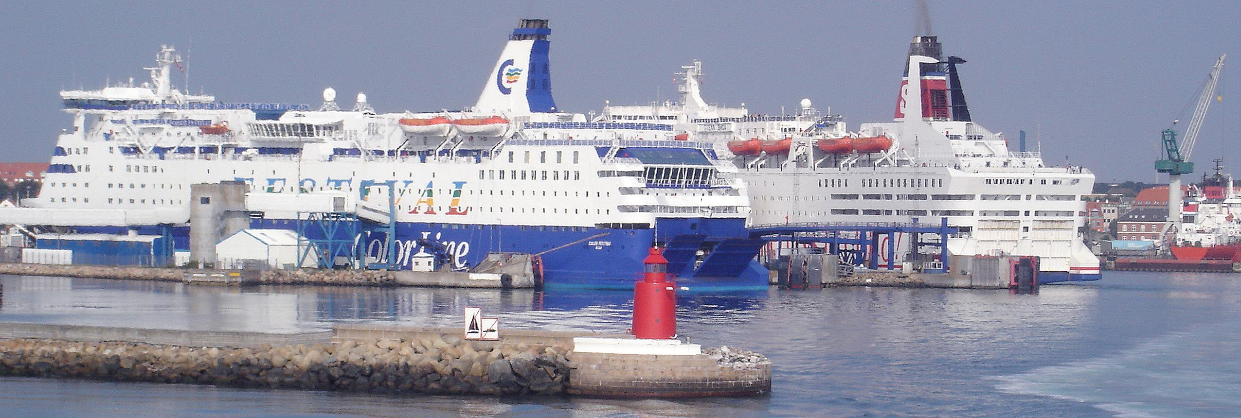 Picture of the harbour of Frederikshavn, Northern Denmark